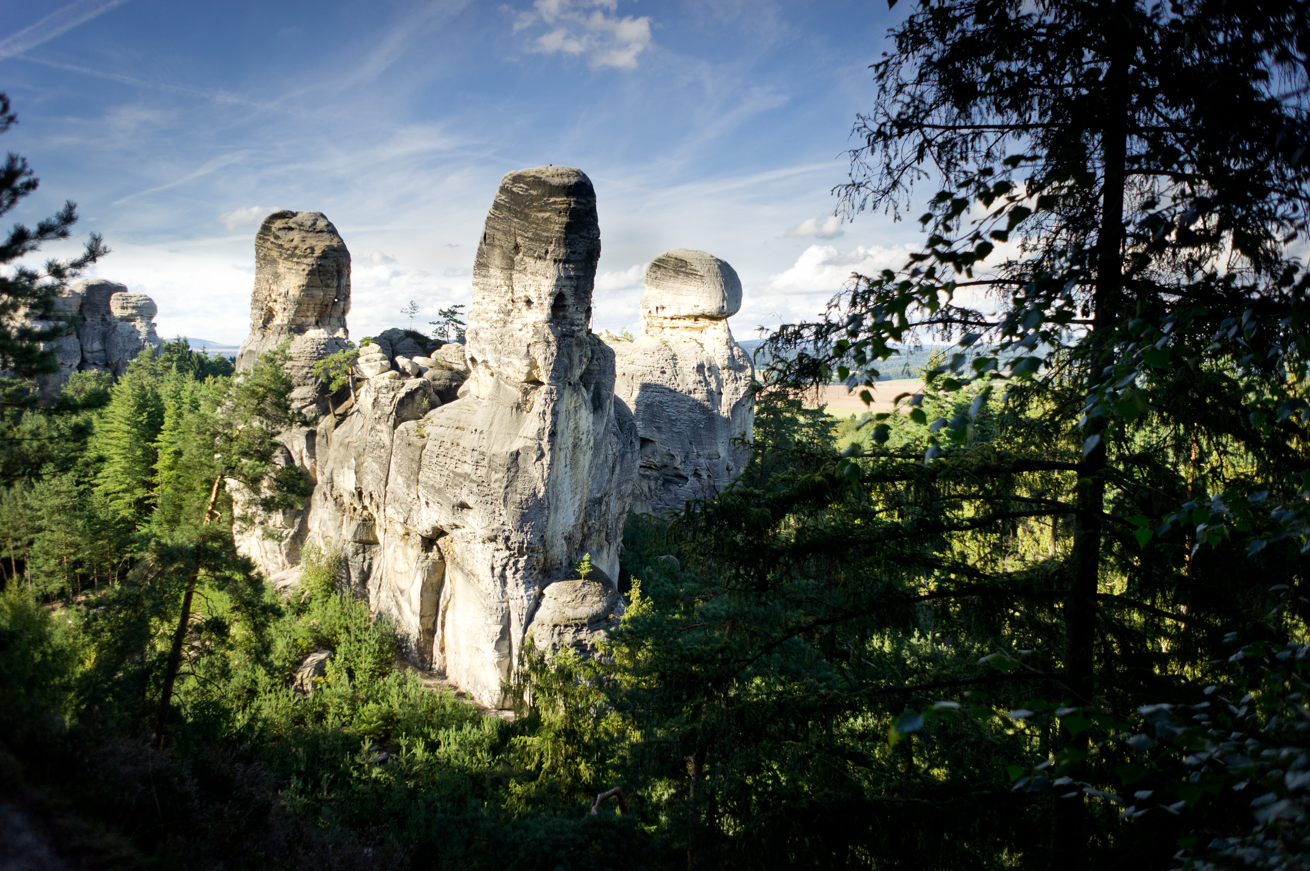 [298/365] Rock castle